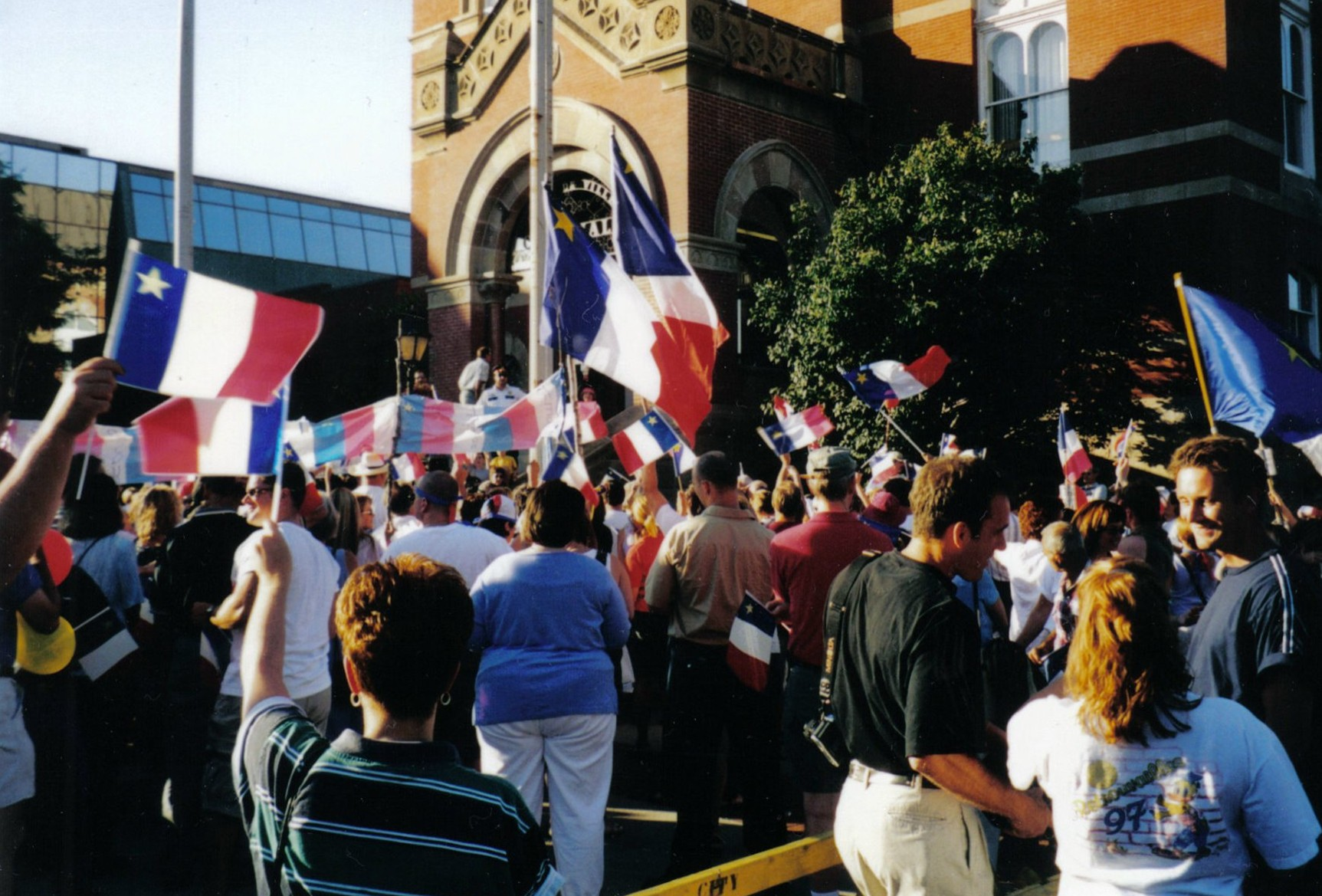 Tintamarre in front of City Hall (Fredericton, NB)